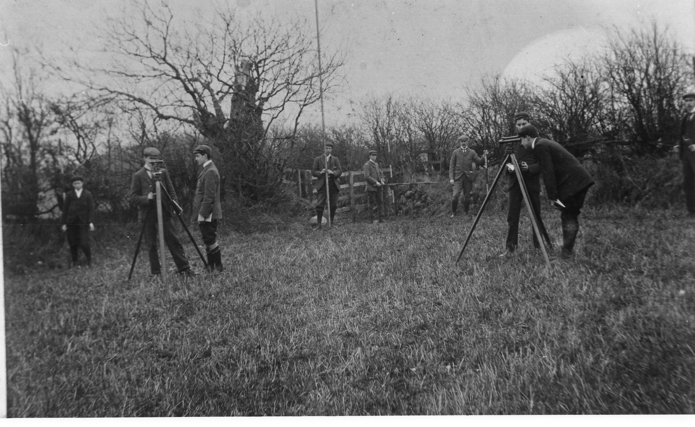 Photo's of Aspatria Agricultural College (surveying)